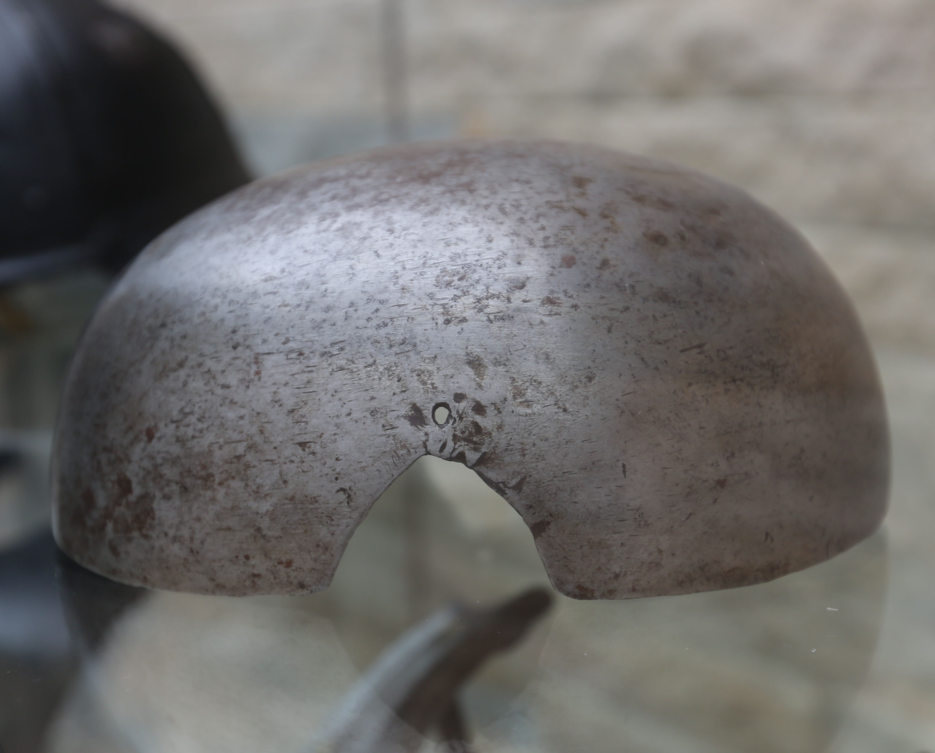 Photo of a Secrete from the side.